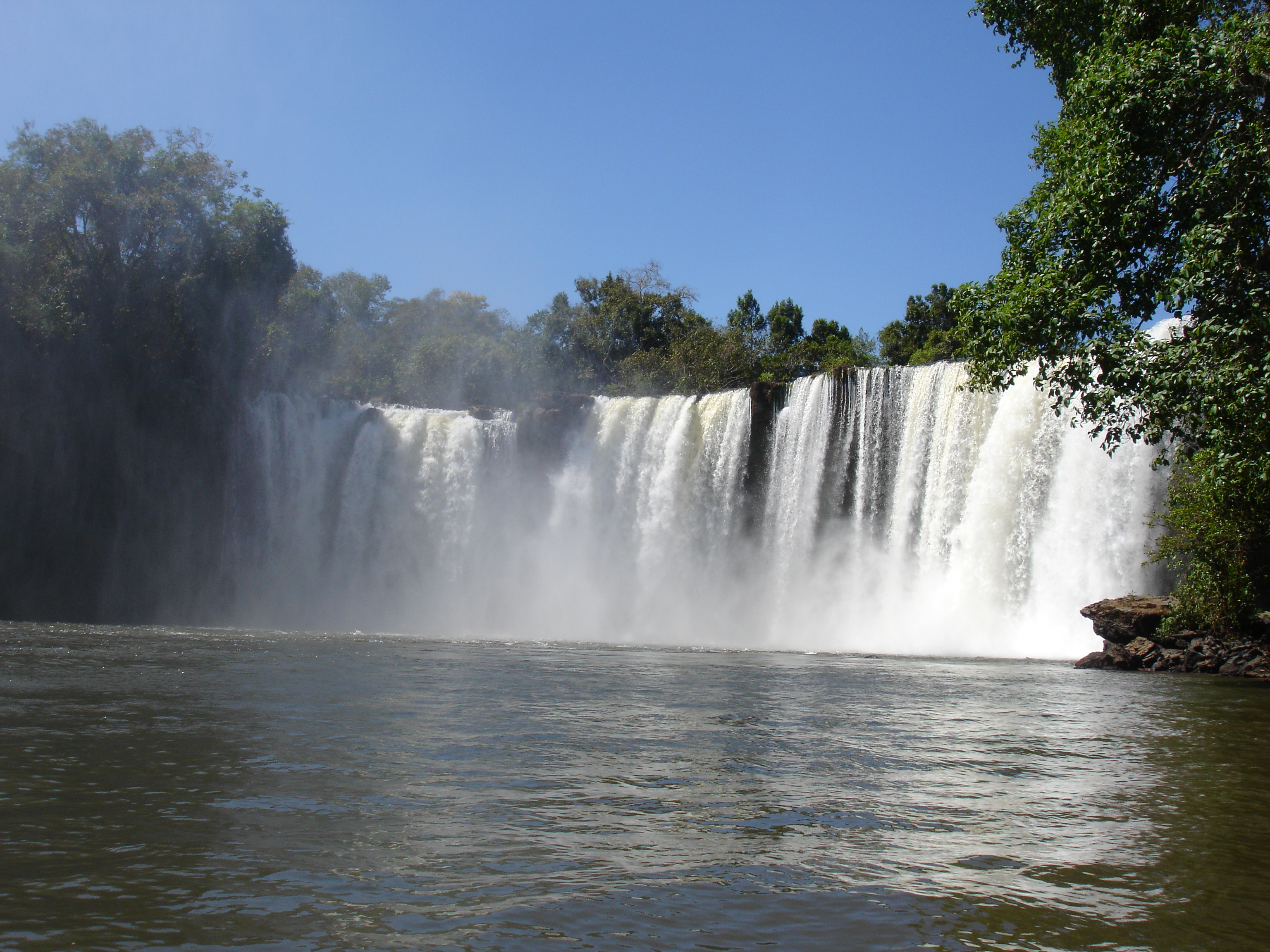 Waterfall inside the Chapada das Mesas National Park.